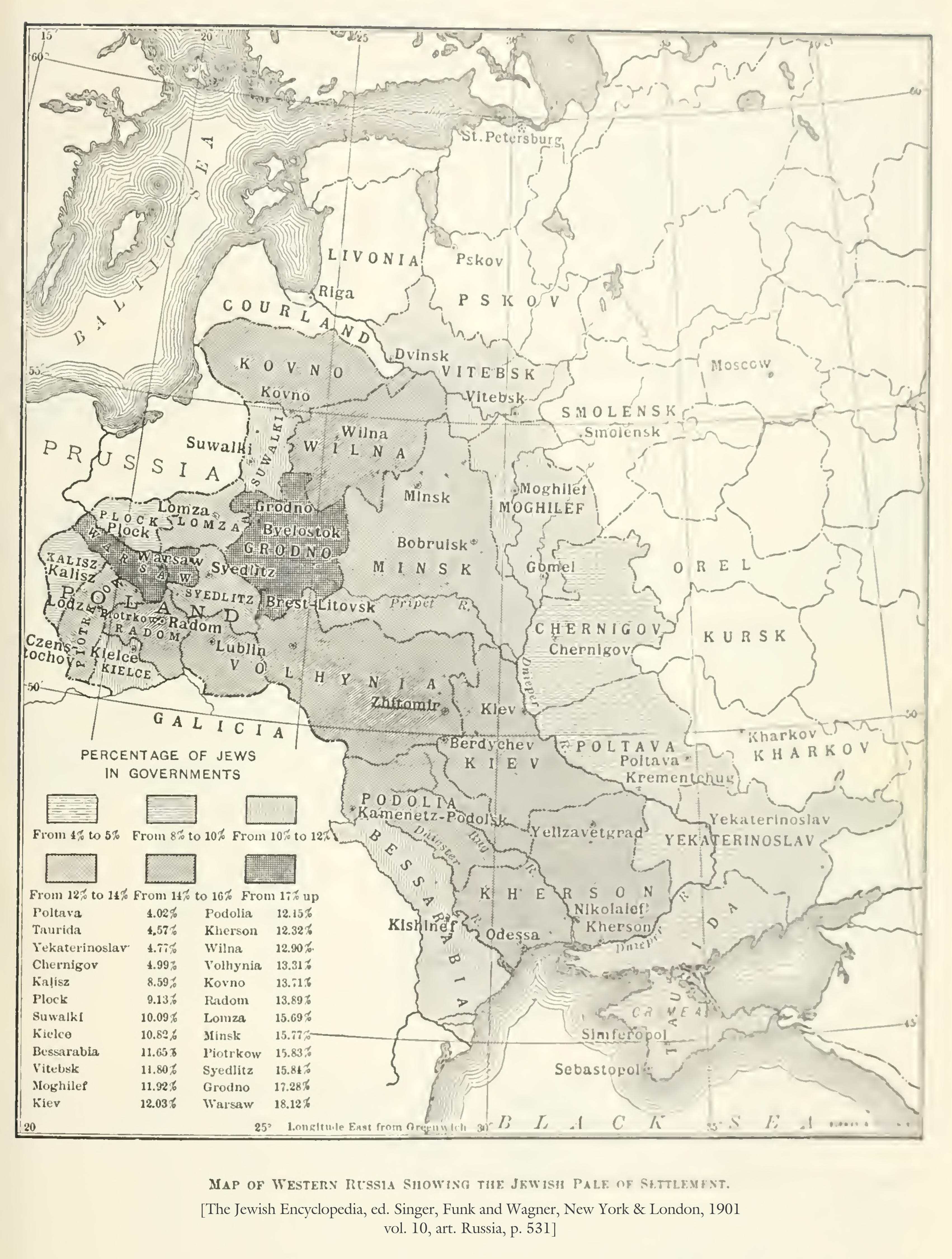 Map showing the percentage of Jews in the Pale of Settlement and Congress Poland (Original caption without the red line). Citations YIVO Encyclopedia, "The Pale did not include the provinces of the Russian-controlled Congress Poland." , "Congress Poland did not belong to the Pale of Settlement." Jewish Virtual Library, "Vistula Region (lands of Congress Poland) was not officially included within the Pale of Settlement." A.S. Lindemann (1997 book, page 61), "Technically, Congress Poland was not part of the Pale (a point not often understood), but most of the extensive territories to the east and south of Congress Poland, once ruled by Poland (Lithuania, Byelorussia, the Ukraine), were included in it." ISBN 0521795389